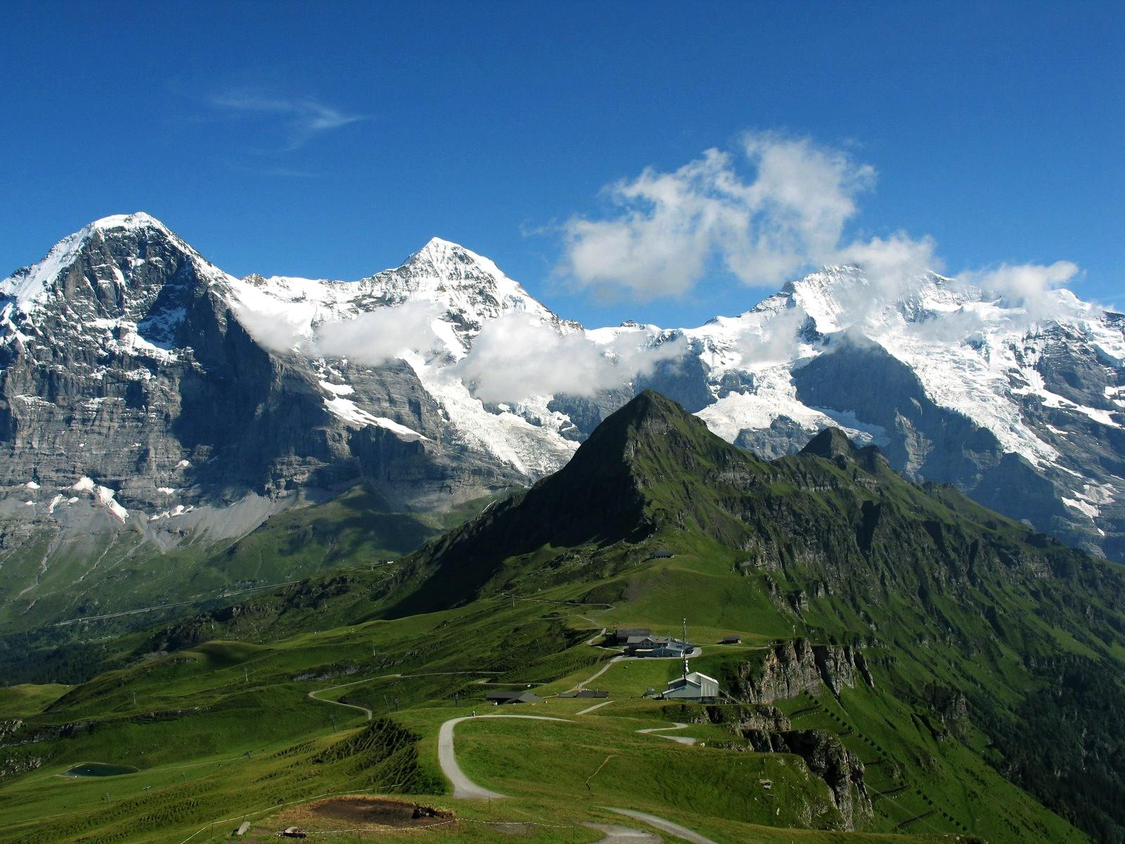 from link to right, Eiger (3,970 m), Mönch (4,107 m) and Jungfrau (4,158 m, with summit amid some clouds) seen from Männlichen (2,342 m)